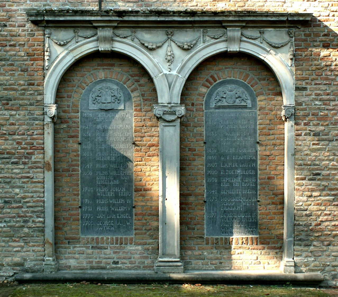 Panel at Kasteel Bouvigne listing all owners of the castle up to the present day.